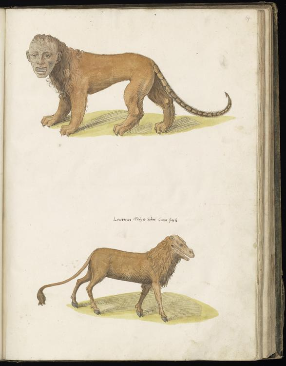 Drawing collected by Felix Platter, to be used in Historiae animalium. The second volume contained drawings of mammals – varying from dogs, sheep and deer to panthers, tigers and camels – and insects, reptiles and amphibians. The drawings were made by several artists, mostly anonymous.